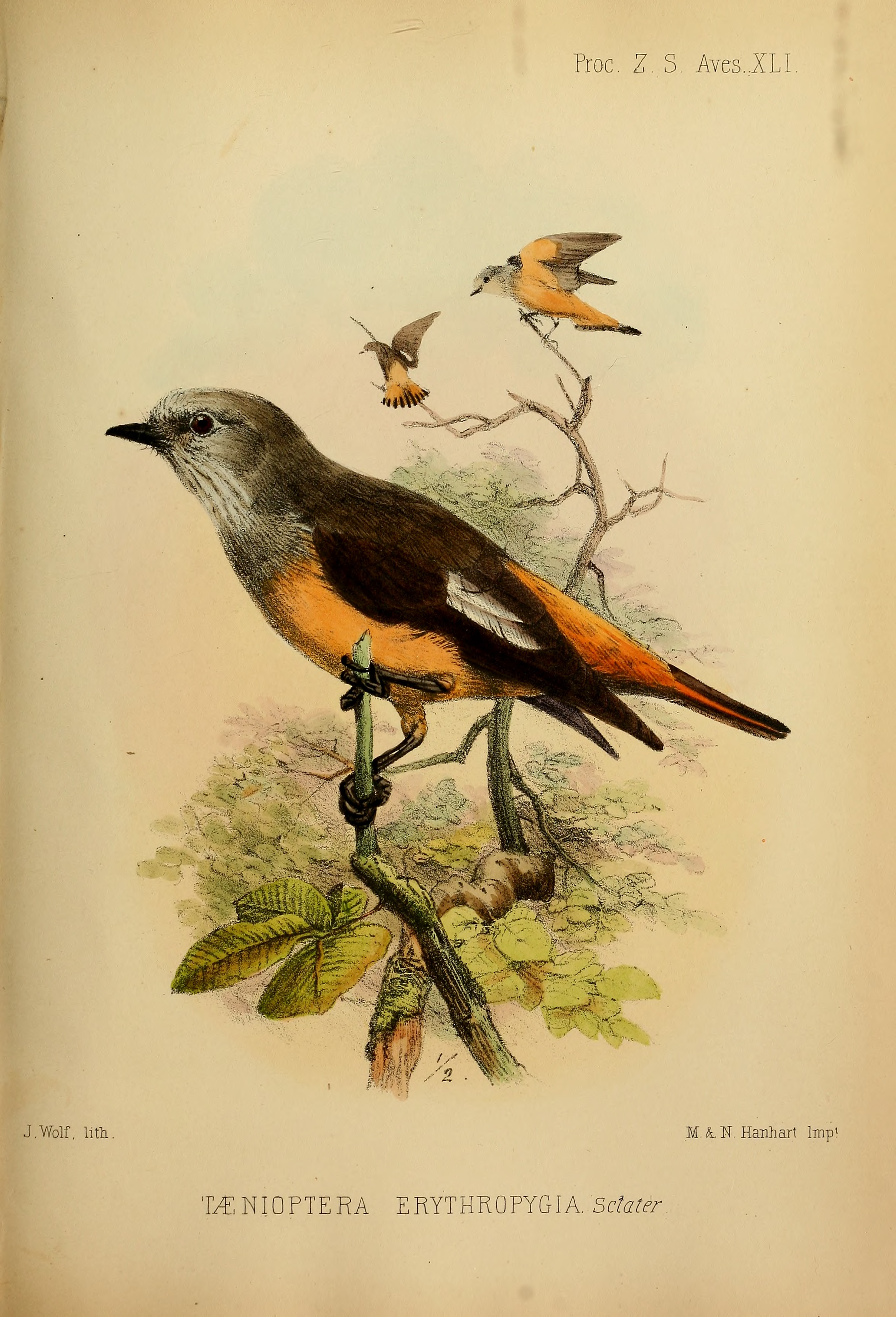 Red-rumped Bush-Tyrant adults